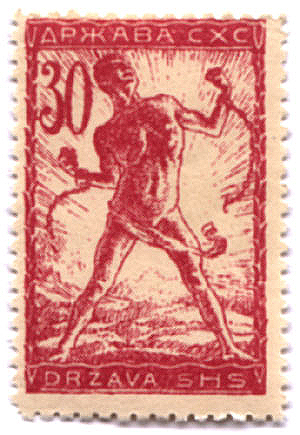 Stamp from the Verigar issue issued in Slovenian regions of the State of Slovenes, Croats and Serbs, 30 hellers, 1919